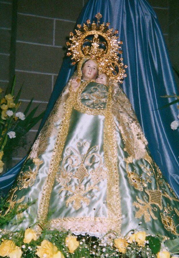 Our Lady of the River, Talaván (Extremadura, Spain)